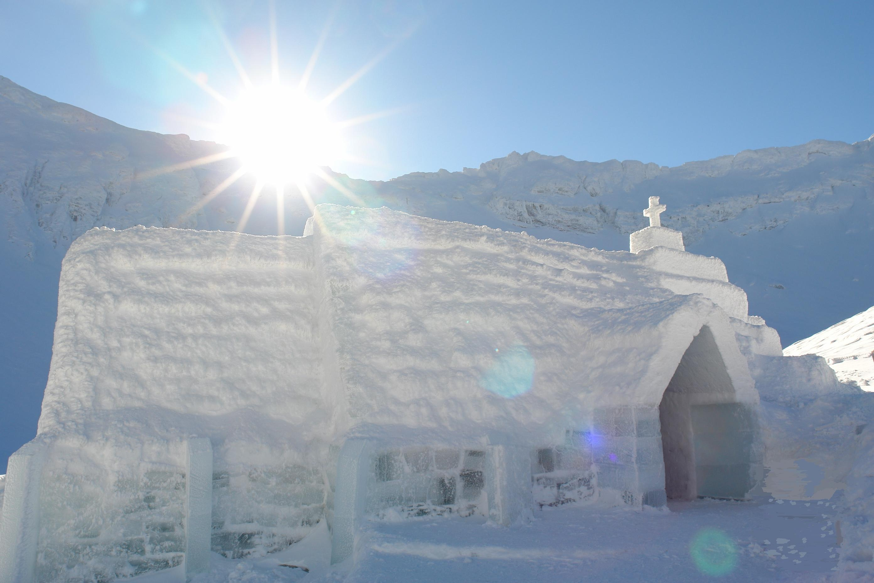 Ice Church